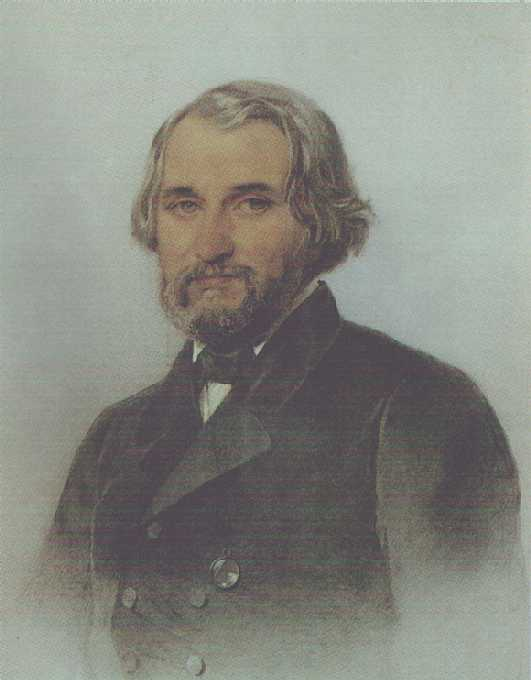 Portrait of Ivan Turgenev